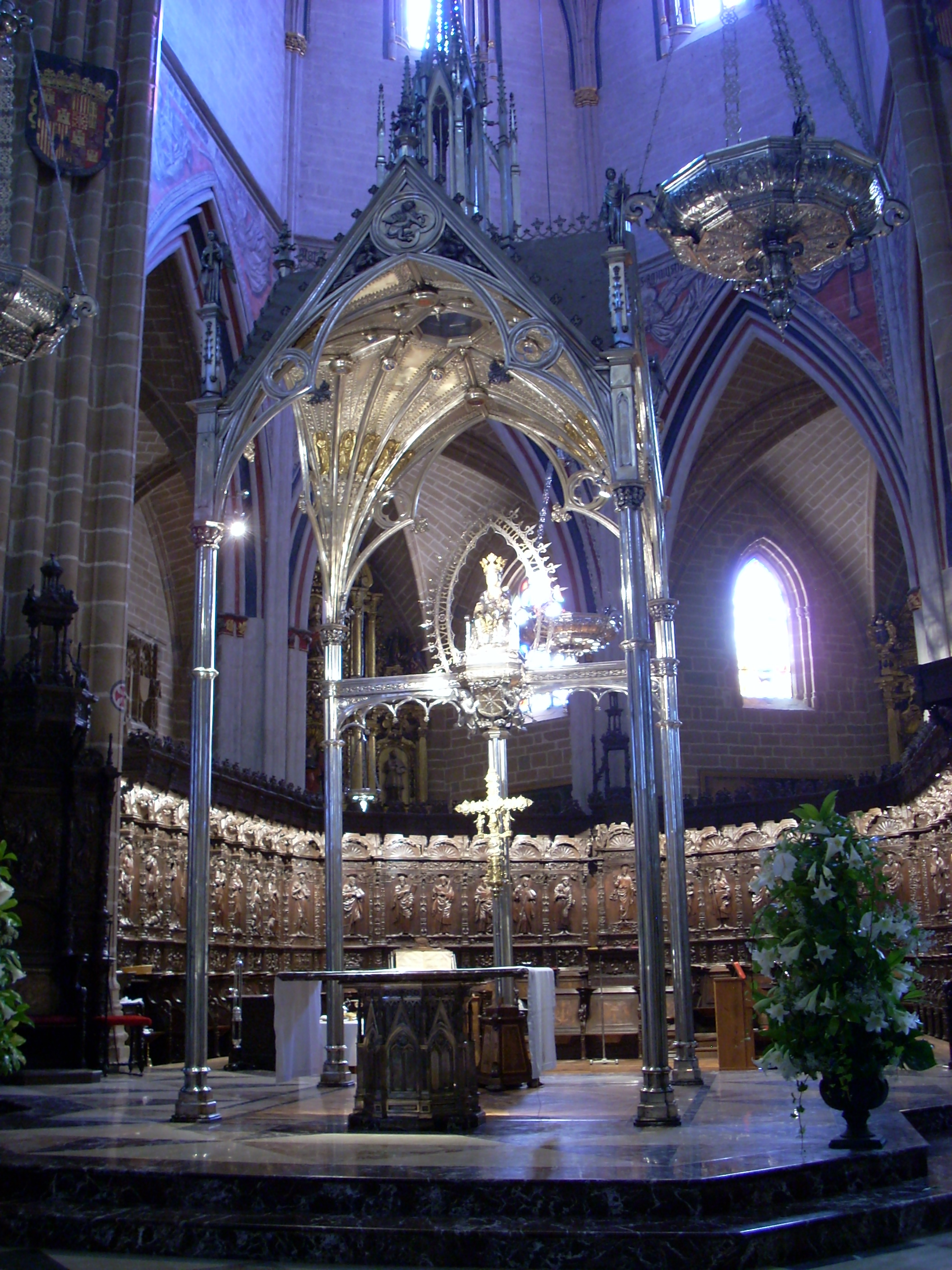 High altar of Pamplona Cathedral, Pamplona, Navarre, Spain